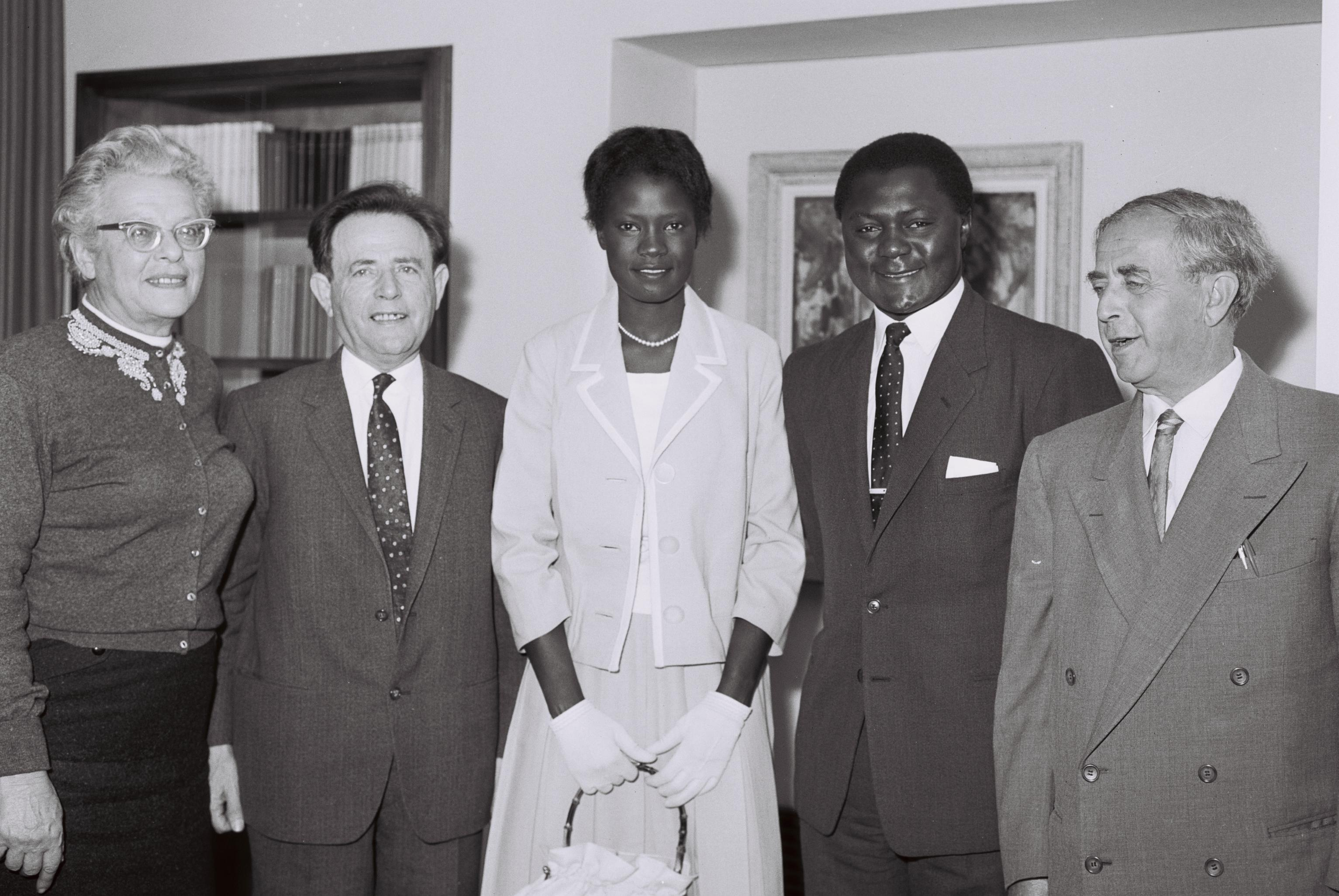 Secretary General of the Kenya Federation of Labor, Tom Mboya and his wife Pamela, during their honeymoon in Israel.